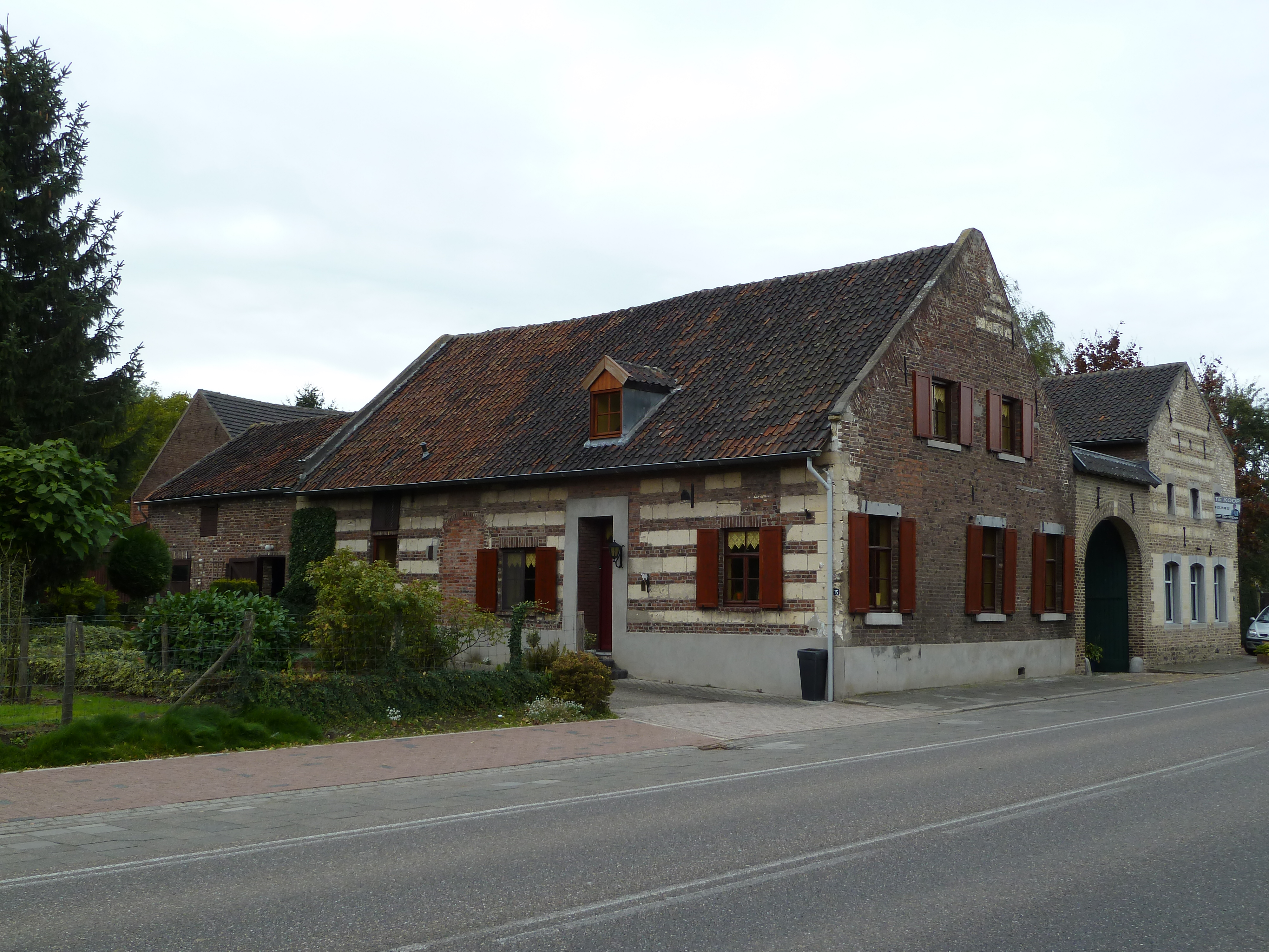 Catharinastraat 15, Oost-Maarland, Limburg, the Netherlands